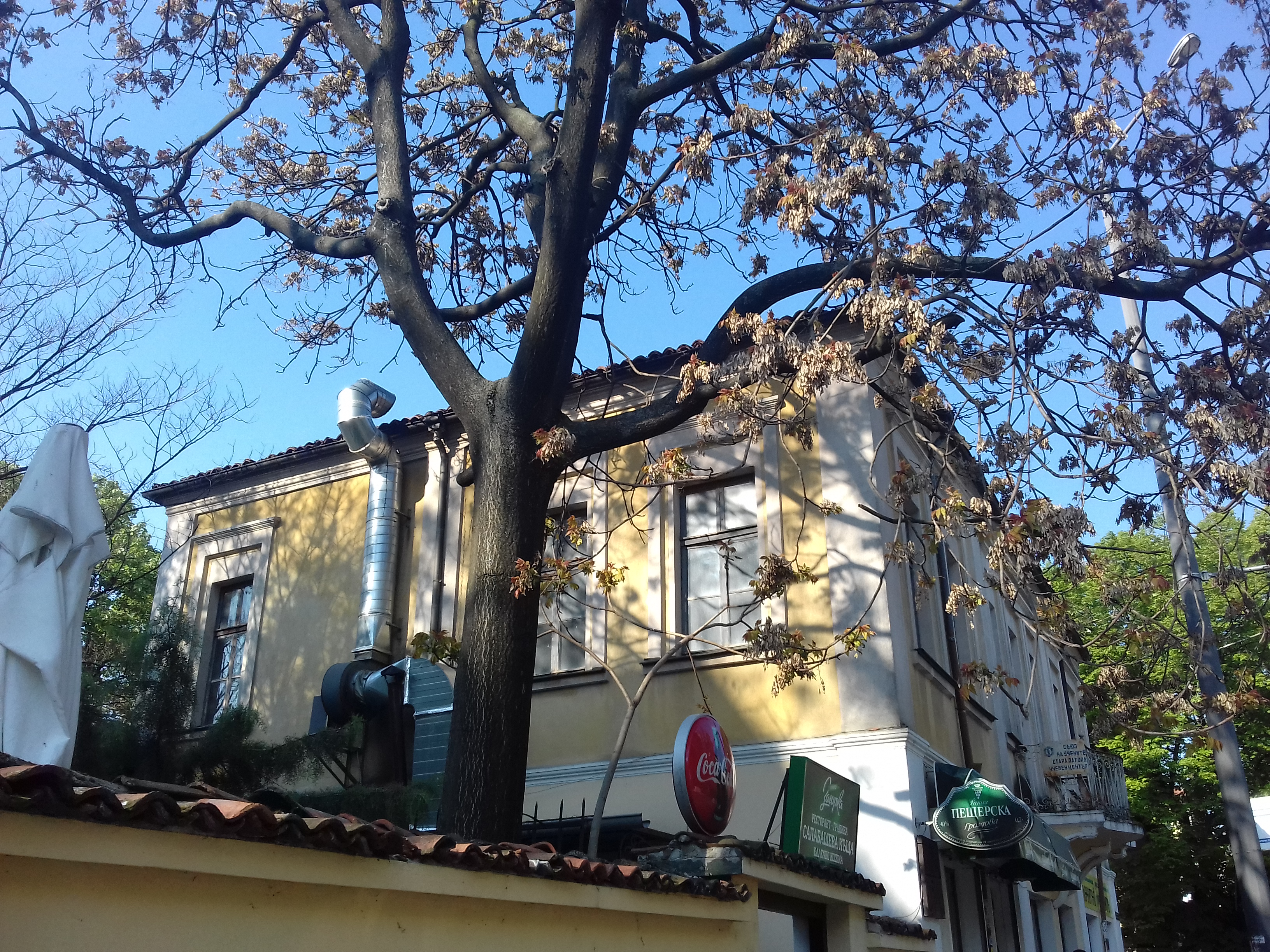 Salabasheva House in Stara Zagora, Bulgaria